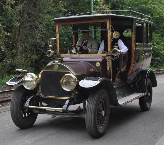 Beamish Museum, County Durham, England. This is the museum's replica of an Armstrong-Whitworth limousine. Behind it is a section of the tramway.